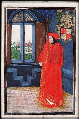 Statuts, Ordonnances et Armorial de l'Ordre de la Toison d'Or (Statutes, Ordonnances and armorial of the Order of the Golden Fleece) Place of origin, date: Southern Netherlands; 1473. Added sections: Southern Netherlands; 1478 or shortly after and 1491 or shortly after Material: Vellum, ff. 86, 249x187 (167x106) mm, 23 lines, littera cursiva (lettre bourguignonne). French. Binding: 18th-century brown leather Decoration: 1 full-page miniature (170x115 mm) with border decoration; 92 miniatures (185/155x120/100 mm); 1 historiated initial (80x90 mm) with border decoration; decorated initials with border decoration (ff., Added section: miniatures ; 4 drawings for miniatures (not finished) Provenance: Presented in 1473 by Gilles Gobet, King of Arms of the Order of the Golden Fleece, to Charles the Bold, Duke of Burgundy and the other Knights during the Chapter of the Order held at Valenciennes; Treasure of the Golden Fleece, Brussls; taken away by the Treasurer C.-F. Humyn (d. 1735) or his daughter C.Ch. de Corte; by legacy to her daughter M.-L. de Corte, wife of Ph.-E. de Poederlé; purchased in 1781 at the Poederlé sale by G.-J- Gérard of Brussels; acquired in 1832 as part of the Gérard collection (no. A 27)